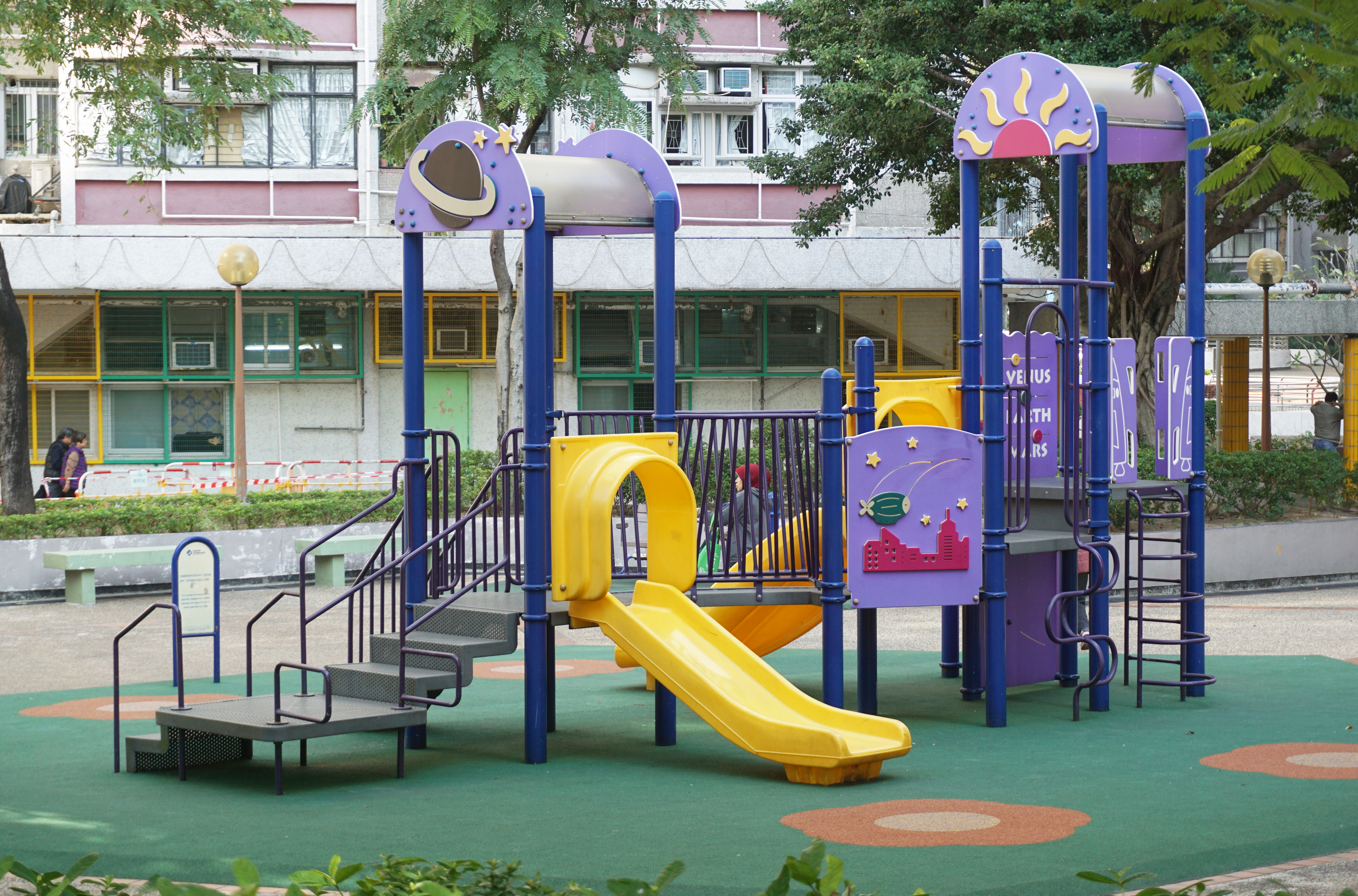 Tung Tau Estate in Wong Tai Sin, Hong Kong.